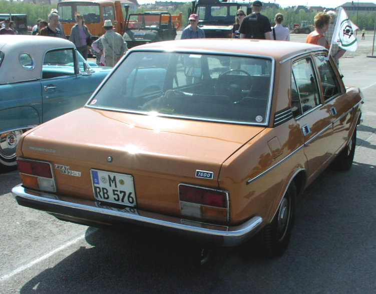 Fiat 132-1600